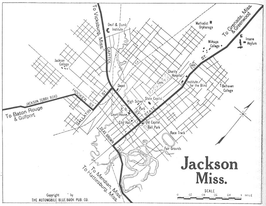 Map of Jackson, Miss., USA